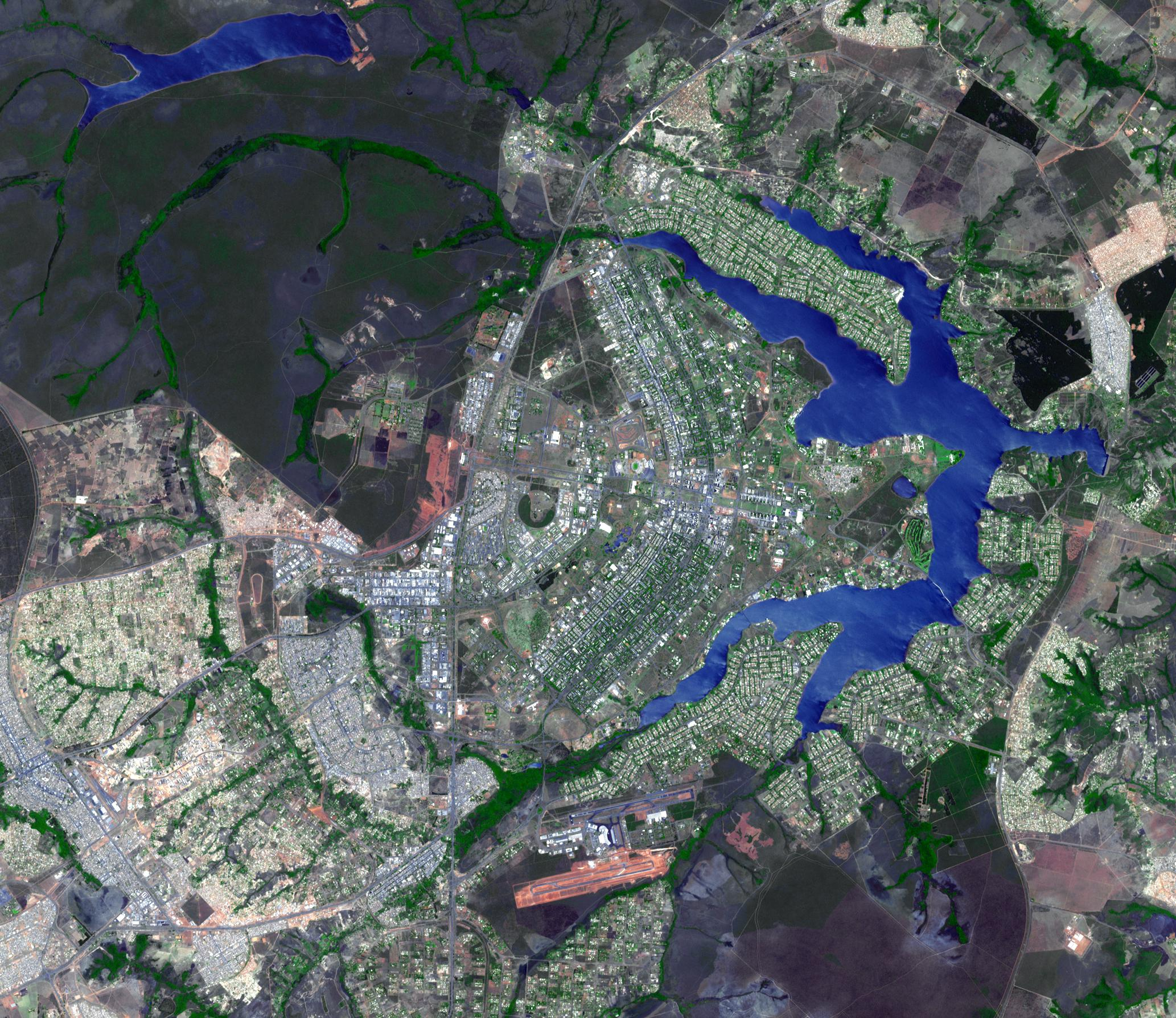 Aster - Brasilia City - Satellite Image